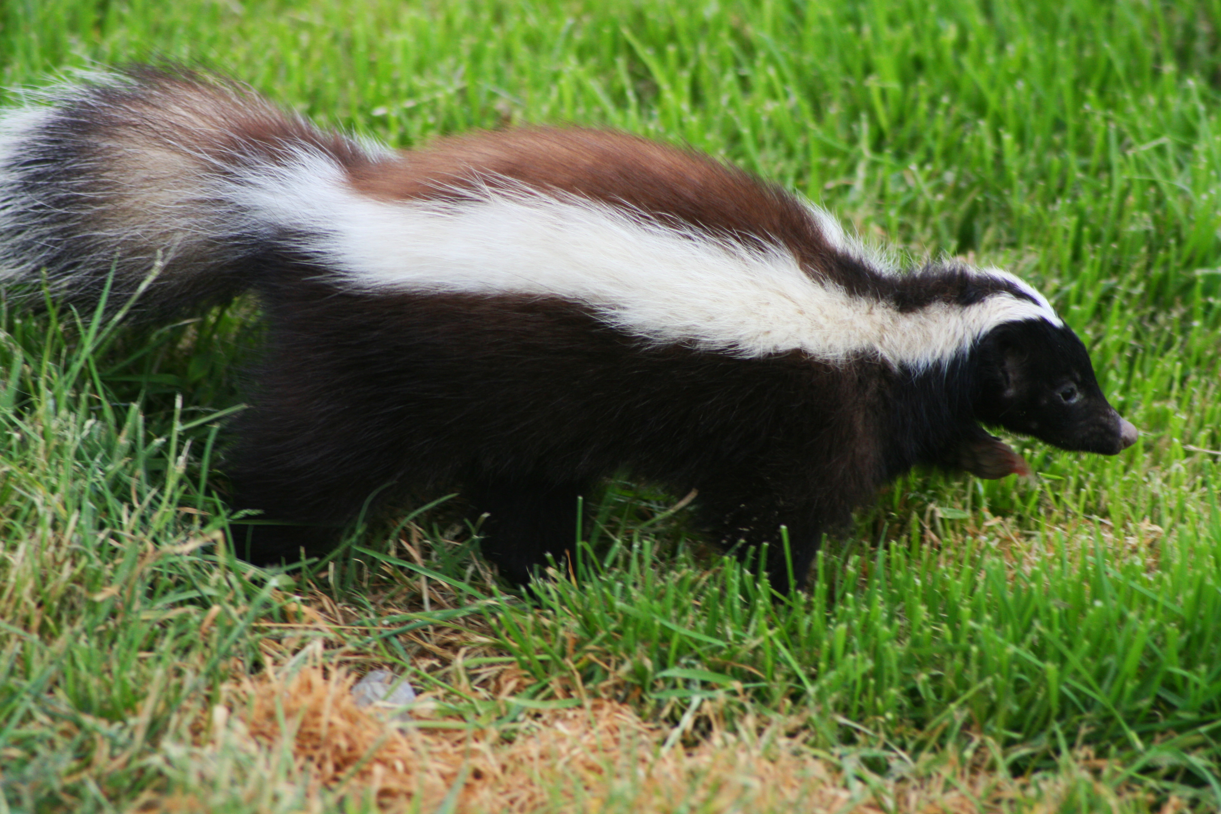 Humboldt's Hog-nosed Skunk in Eastern Patagonia